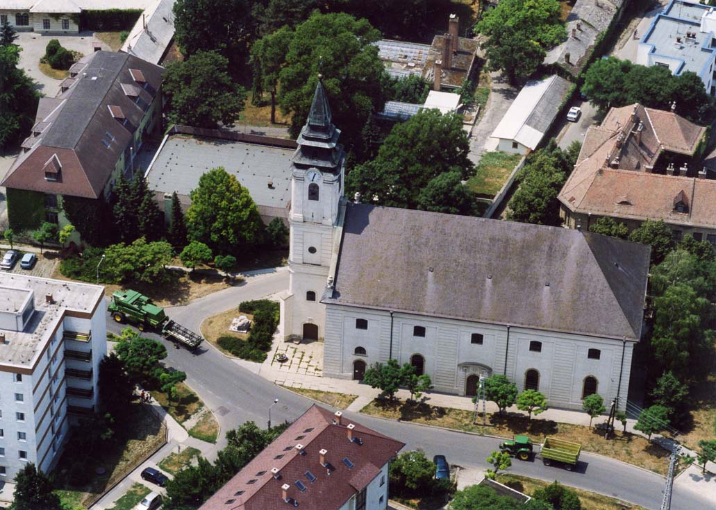 Szarvas, Hungary, aerial photography